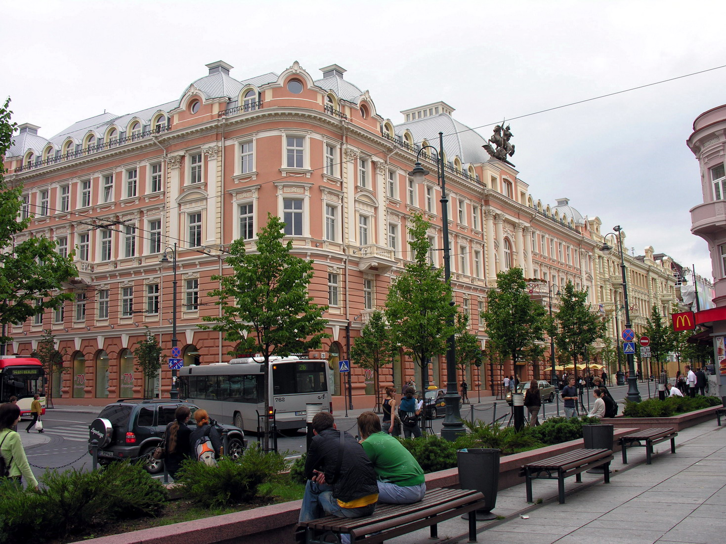 Gedimino prospektas. Gediminas' Avenue. Vilnius, Lithuania. Statue on one of the buildings is Saint George.